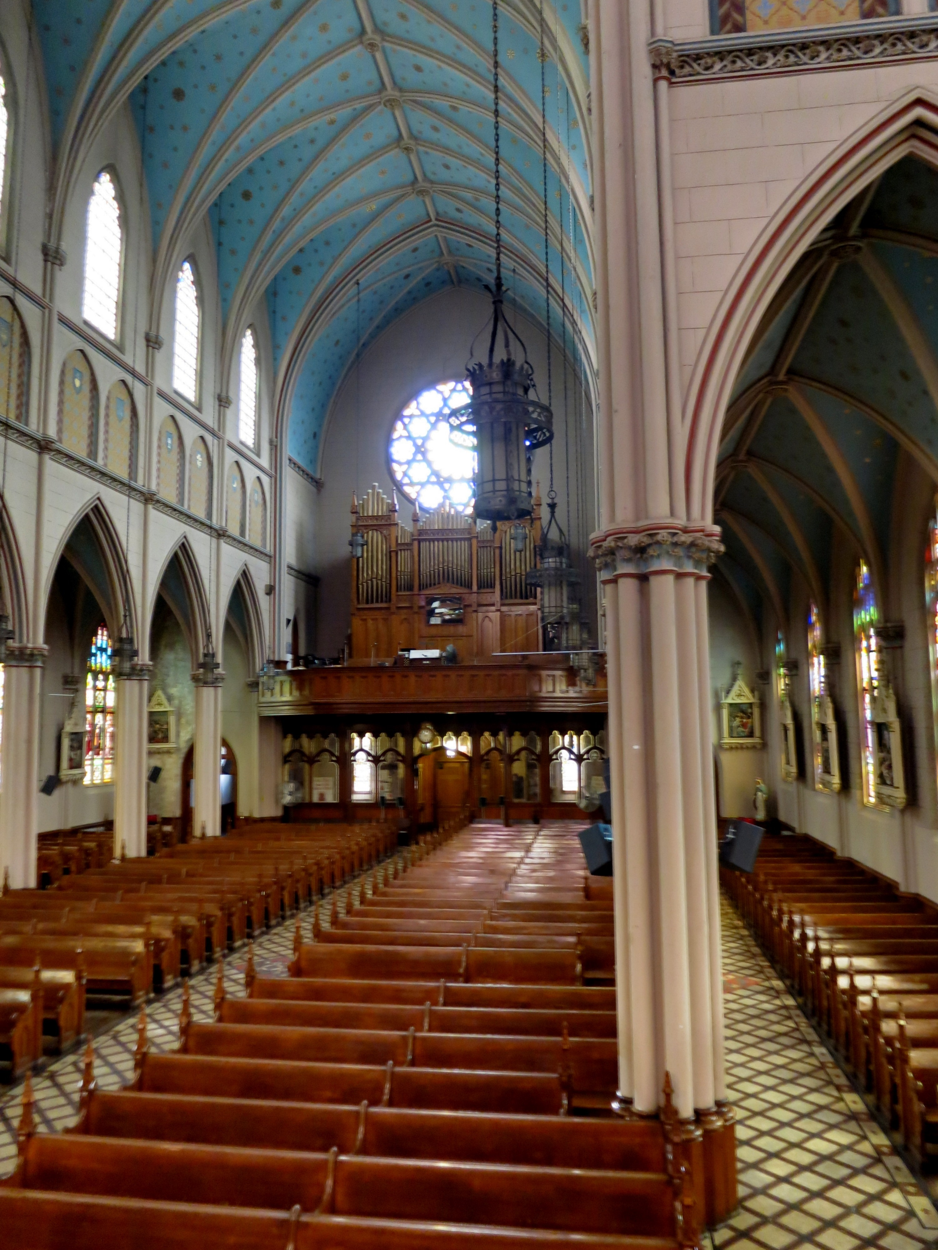 Sainte Anne de Detroit Catholic Church (Detroit, MI) - interior, view from the ambo